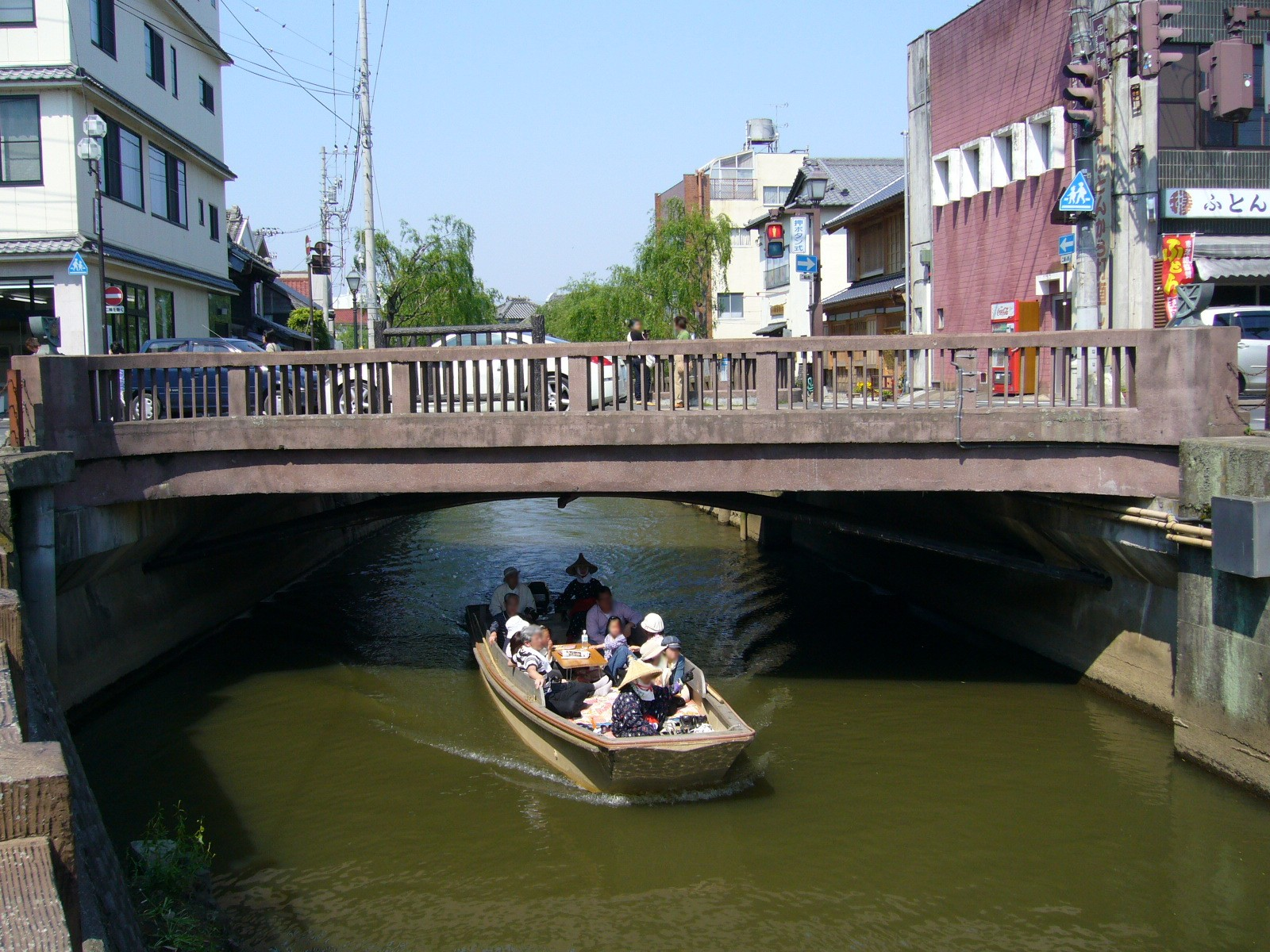 chuukei-bridge1,katori-city,chiba-pref.,Japan.